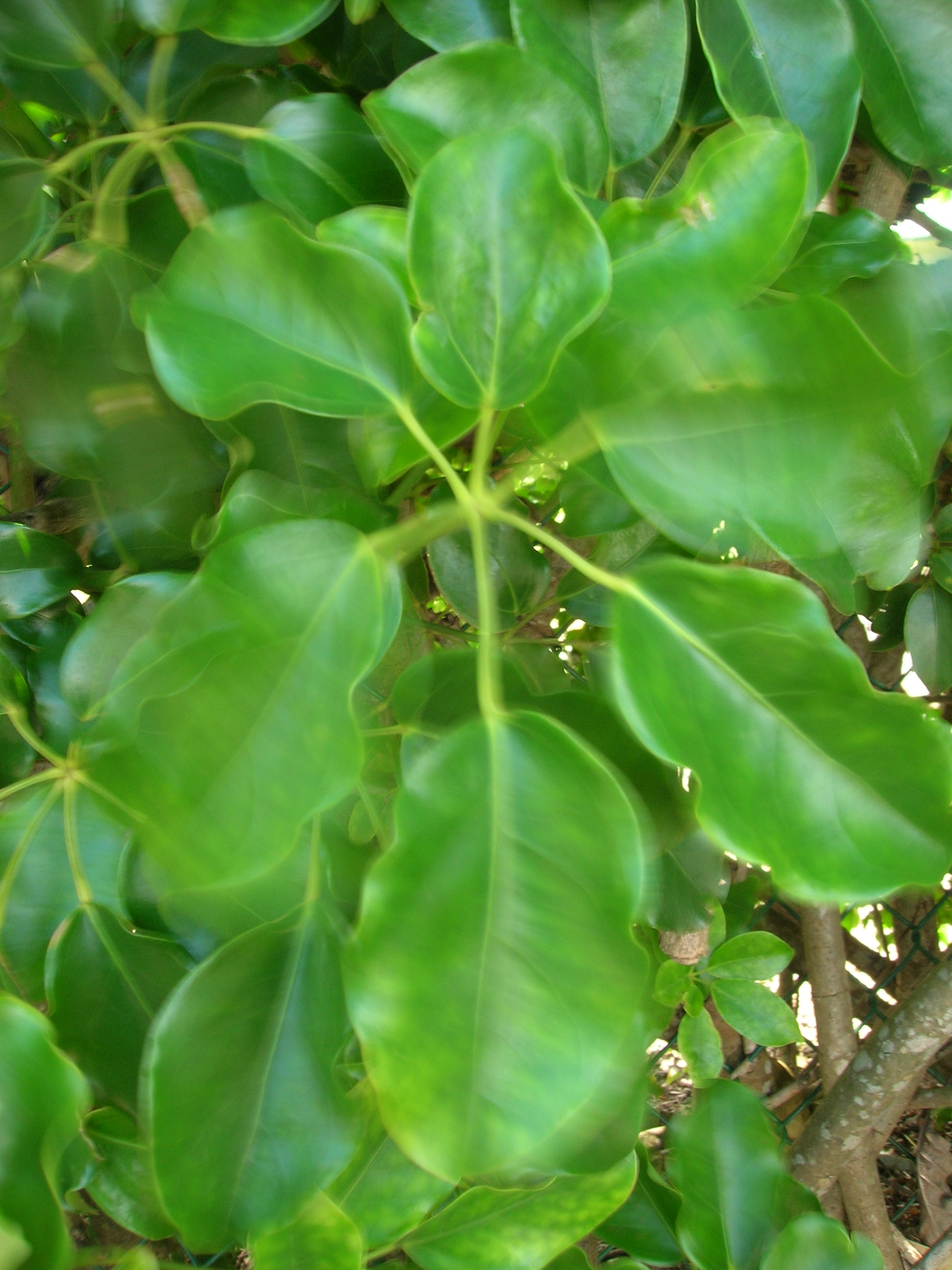 Schefflera arboricola (crinkled leaf form). Location: Maui, Makawao Ave Makawao